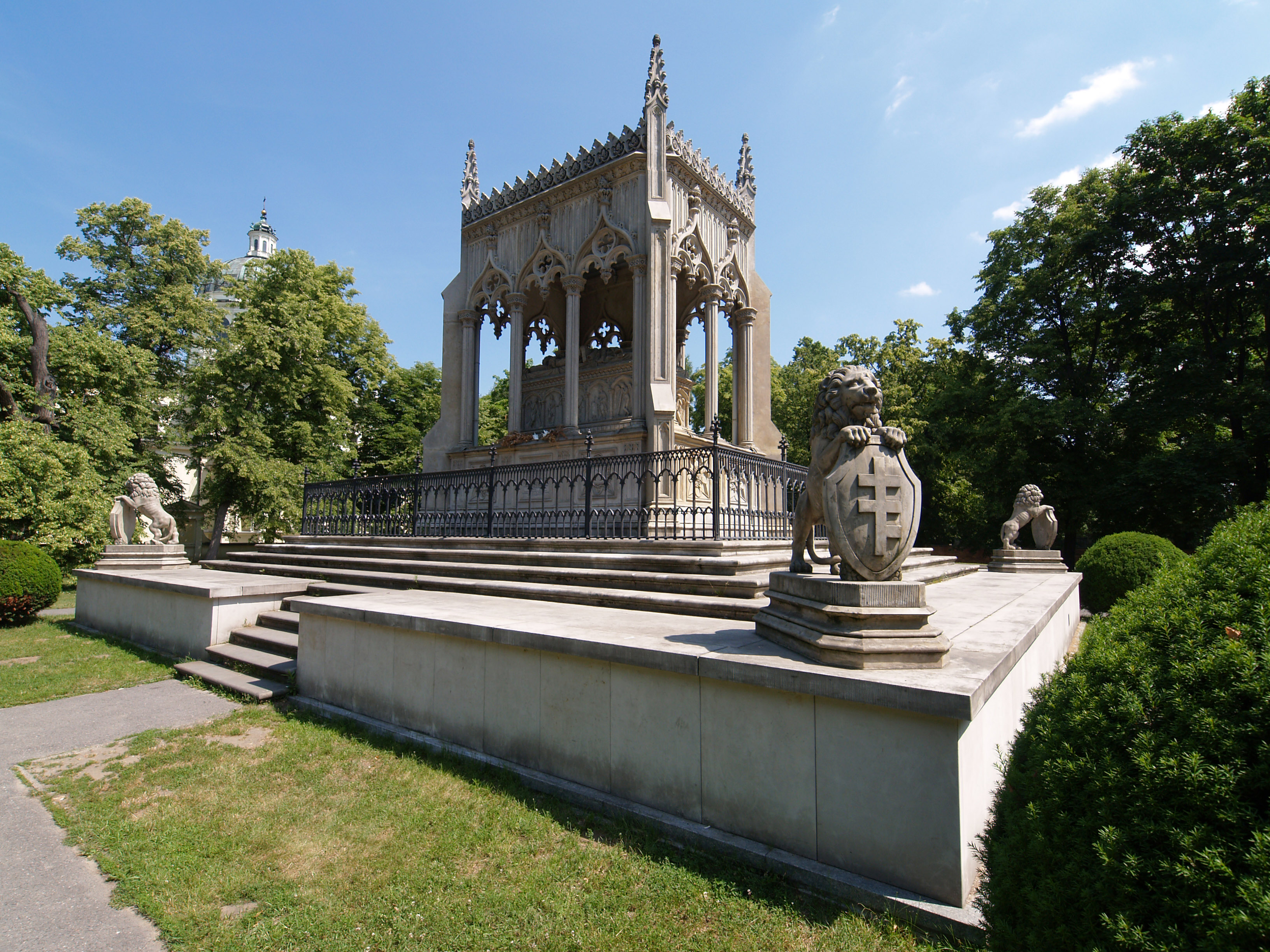 The Potocki mausoleum at Wilanow Park at Warsaw, Poland